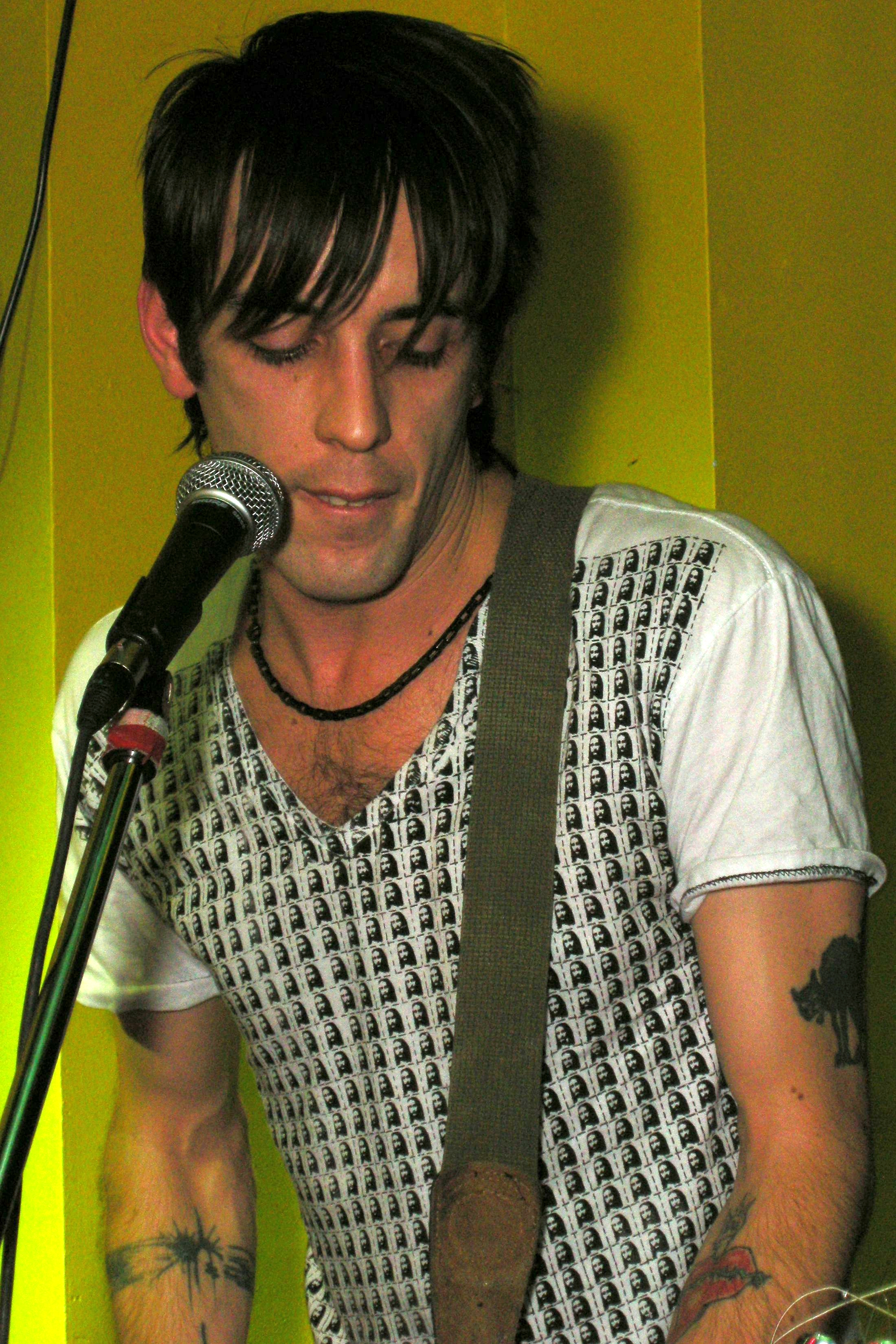 Dan Boeckner, performing with the Handsome Furs on 23 December 2007, at the Jimmy Jazz in Guelph, Ontario.